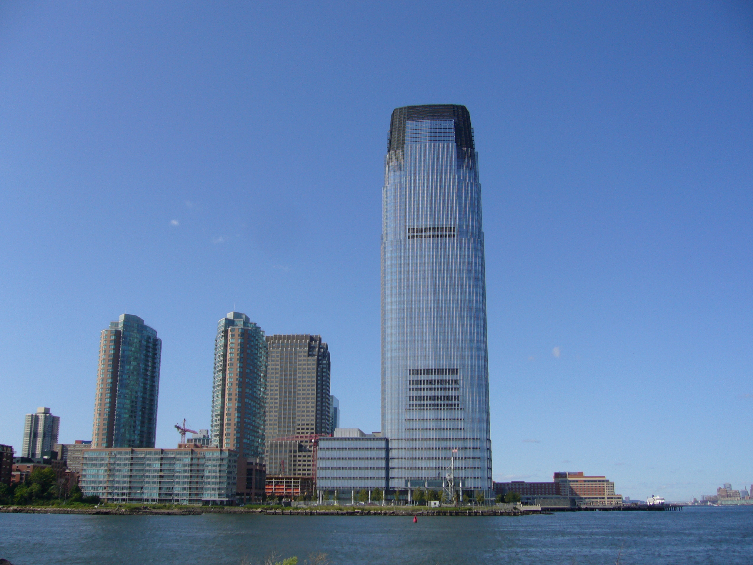 Goldman Sachs Tower in Jersey City, New Jersey